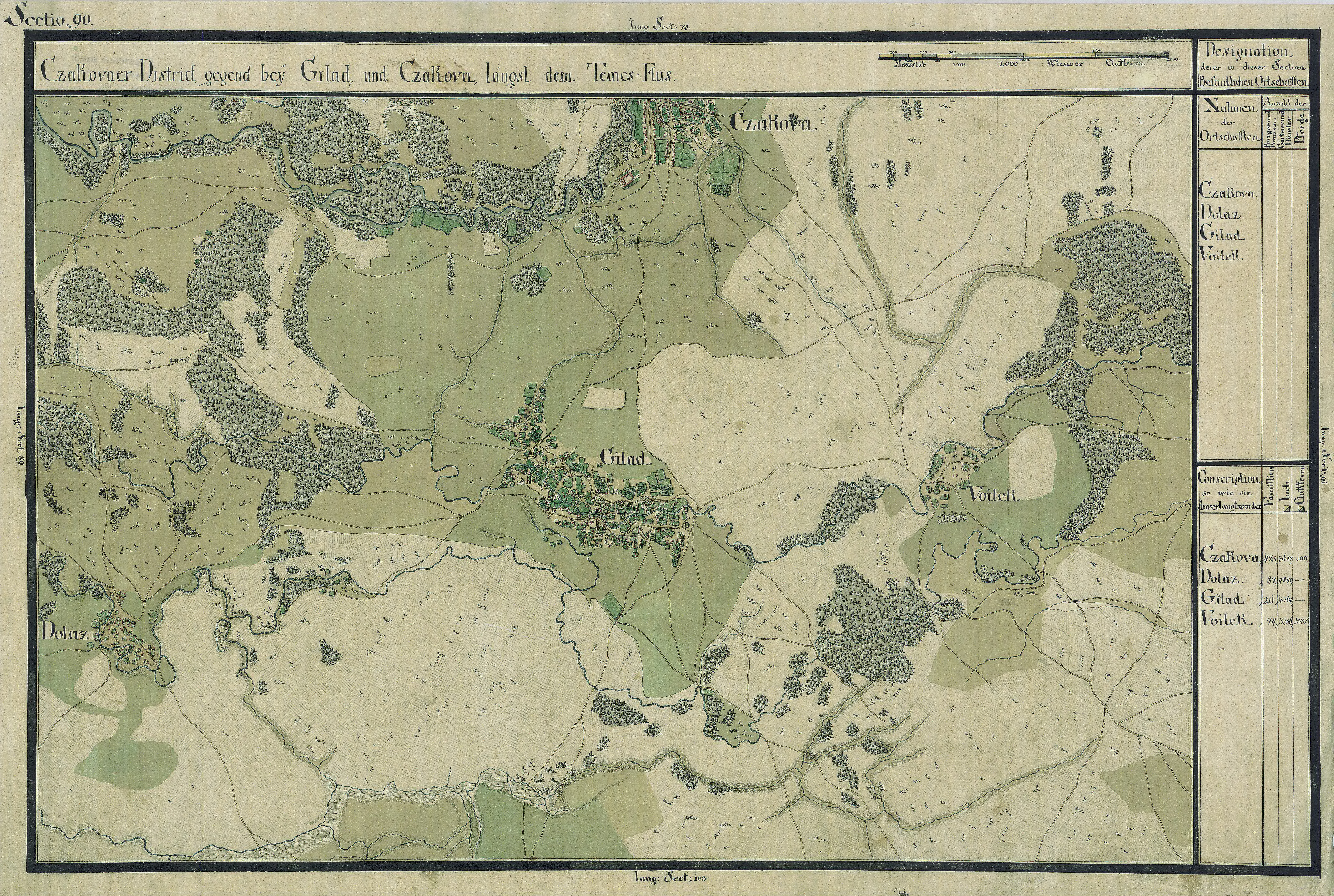 The Banat region in the cadastral maps: Josephinische Landesaufnahme, 1769-72. Josephinische Landaufnahme pg090